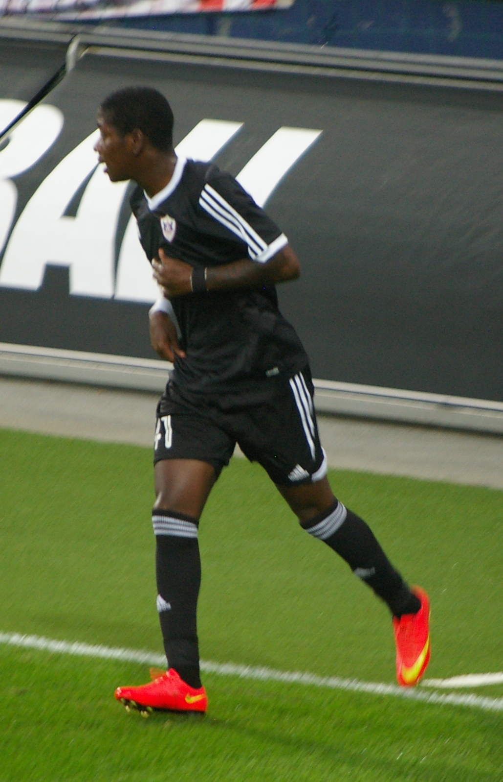 Championsleague Qualifier 3rd round